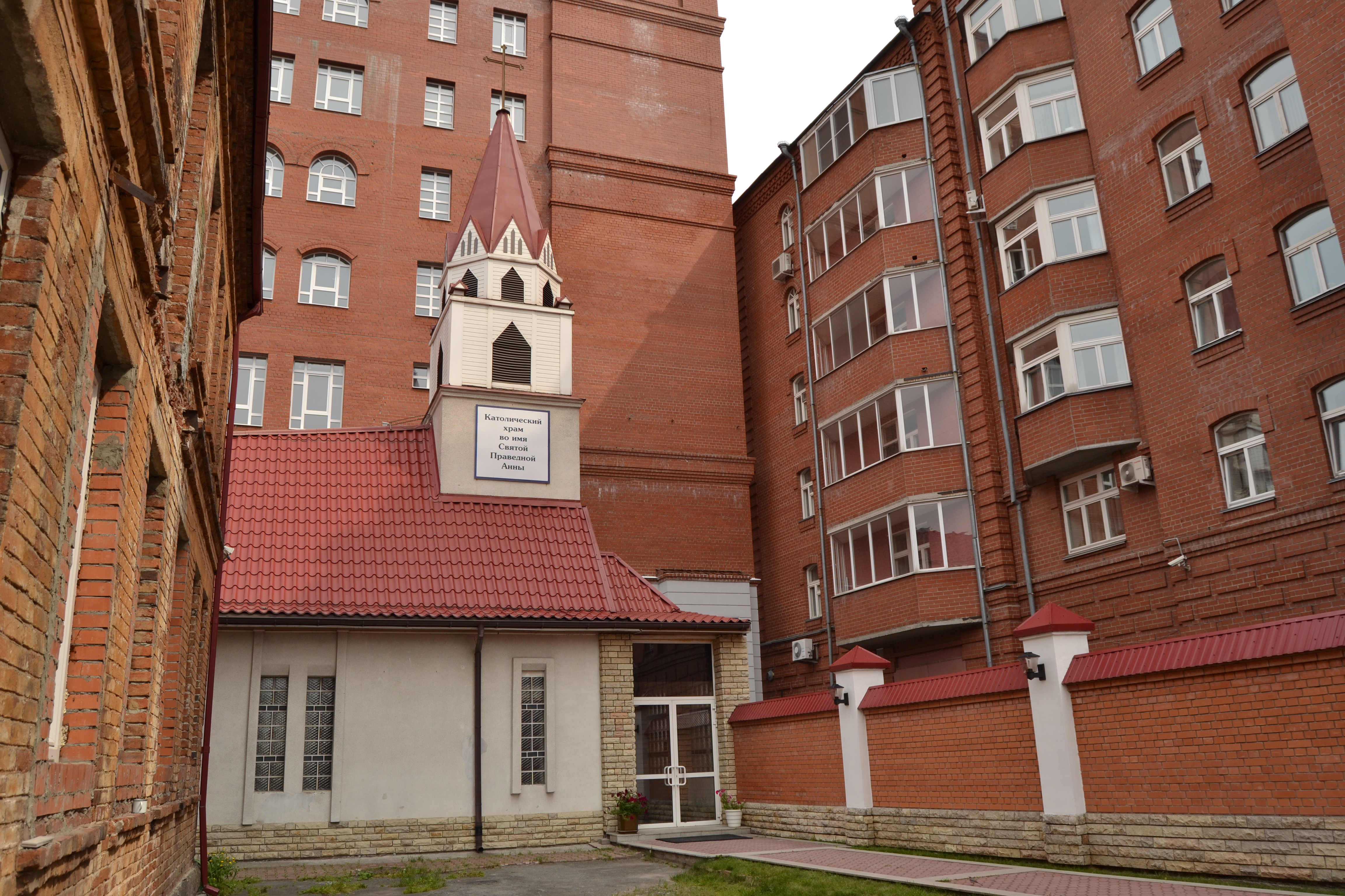 The Roman Catholic parish of St. Anne, Ekaterinburg